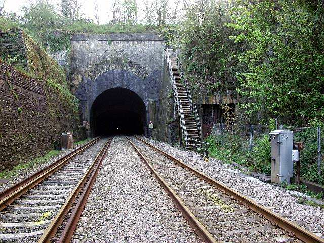 This photo shows the eastern portal of Box Tunnel, near Hudswell, Wiltshire.